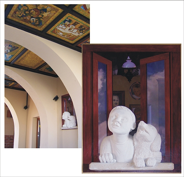 Zoltan Joo (1956-):Look up! Street Art: limestone sculpture and painted background (printed foil of the original paintingn (public art), Veresegyház, Hungary